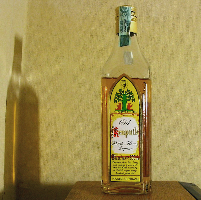 Polish Krupnik (honey liquor) destilled in Starogard Gdański author: Mohylek (other version: Image:Krupnik (modded).jpg)